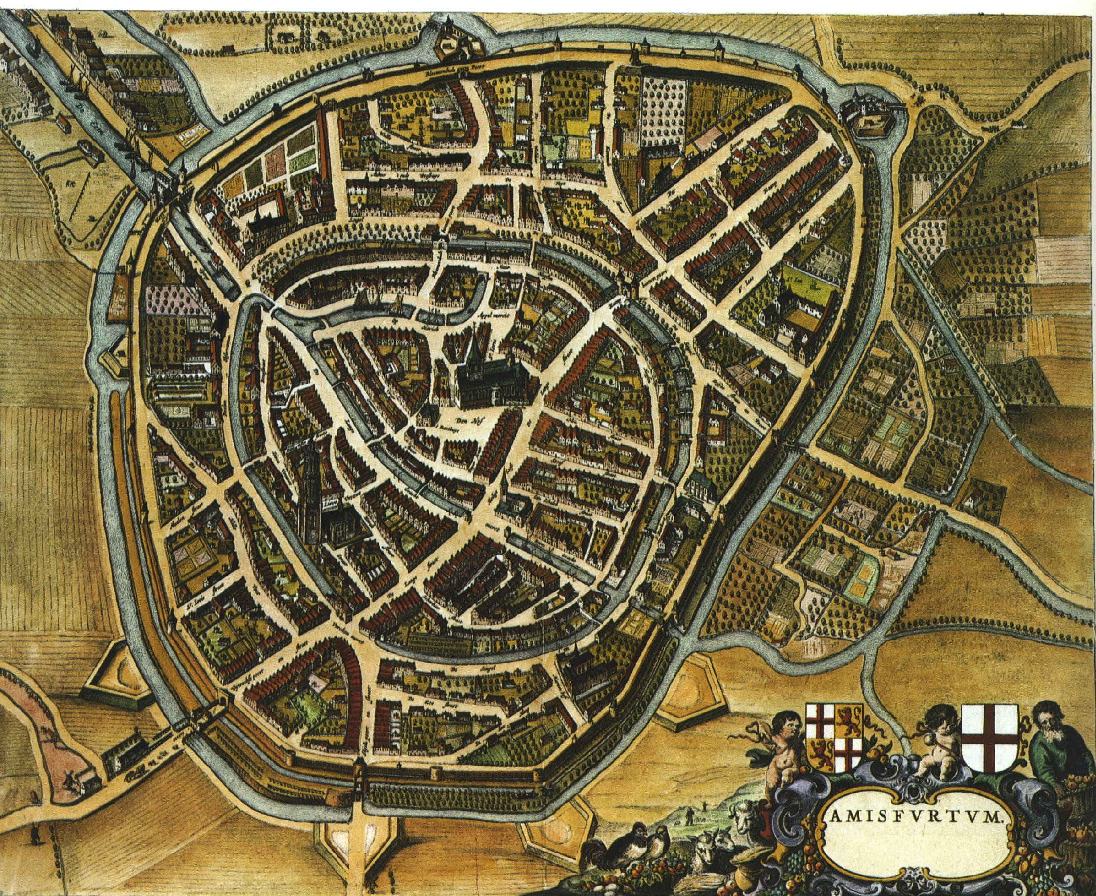 Amersfoort from"Blaeu's Toonneel der Steden"(Dutch city maps, Edited by Willem and Joan Blaeu), 1652.